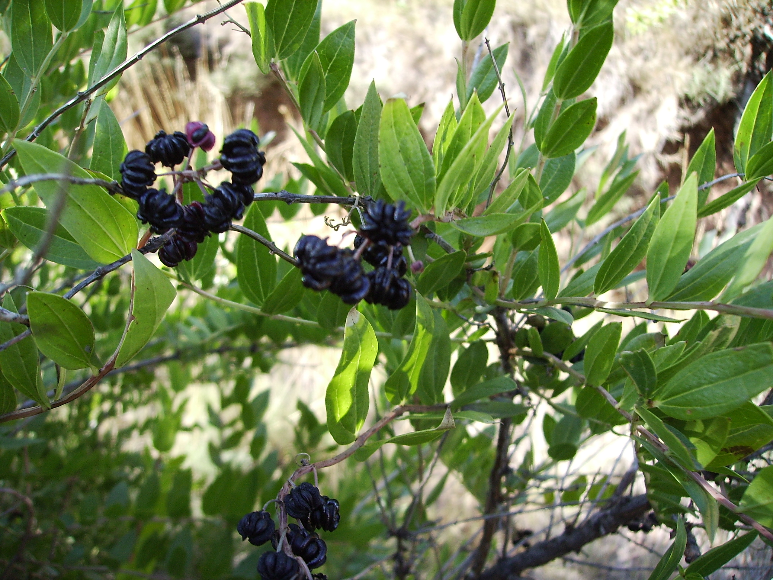 Image:Roldor0032.JPG Coriaria myrtyfolia (roldor,emborrachacabras) . Very poisonneous fruits, similar to blackberries Serra de Castelltallat,Catalonia